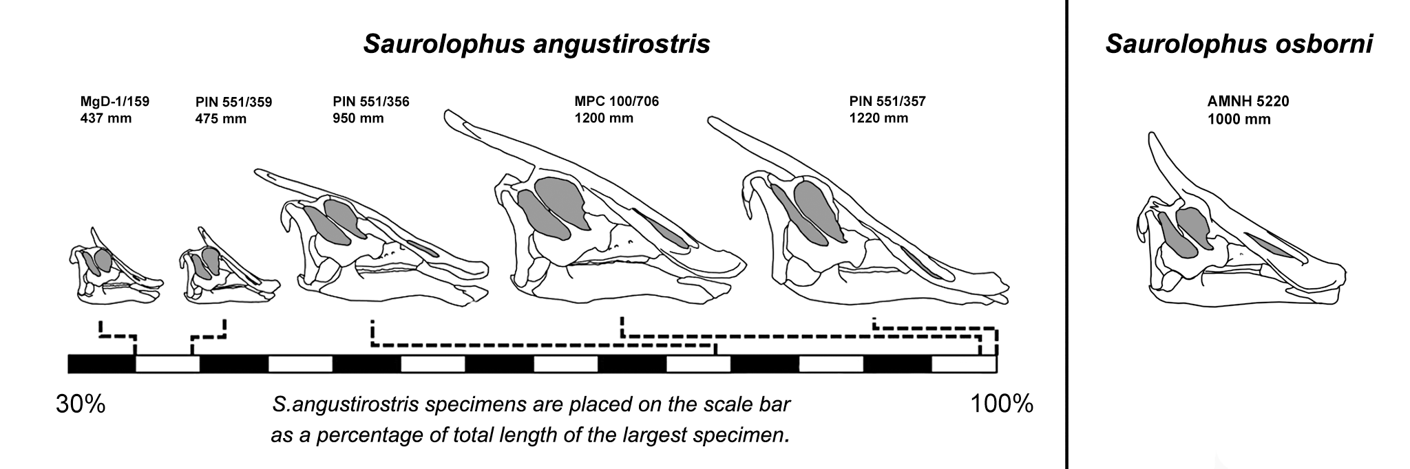 A diagram showing the cranial ontogeny of the hadrosaur Saurolophus angustirostris with the Saurolophus osborni type specimen for comparison. S.angustirostris specimens are placed on the scale bar as a percentage of length of the largest specimen. All specimens are to scale. • The diagram of S.angustirostris skulls is modified from Figure 12 in Bell 2011. Original figure description: 'Ontogenetic series of Saurolophus angustirostris Rozhdestvensky, 1952 skulls (late Campanian–?Maastrichtian Nemegt Formation, Mongolia) with associated neurocranial (and select dermatocranial) changes. Specimens are placed on the scale bar as a percentage of length of the largest specimen. Specimens are to scale.' [1] • S.osborni was not in the original diagram by Bell, it was redrawn from figure 1 in Brown 1912 [2] • Details regarding specific anatomical changes were removed from the diagram for simplicity. References ↑ (2011). "Cranial Osteology and Ontogeny of Saurolophus angustirostris from the Late Cretaceous of Mongolia with Comments on Saurolophus osbornifrom Canada". Acta Palaeontologica Polonica 56 (4): 703–722. ↑ Brown, Barnum (1912). "A crested dinosaur from the Edmonton Cretaceous". Bulletin of the American Museum of Natural History 31 (14): 131–136. Retrieved on 2007-04-29.